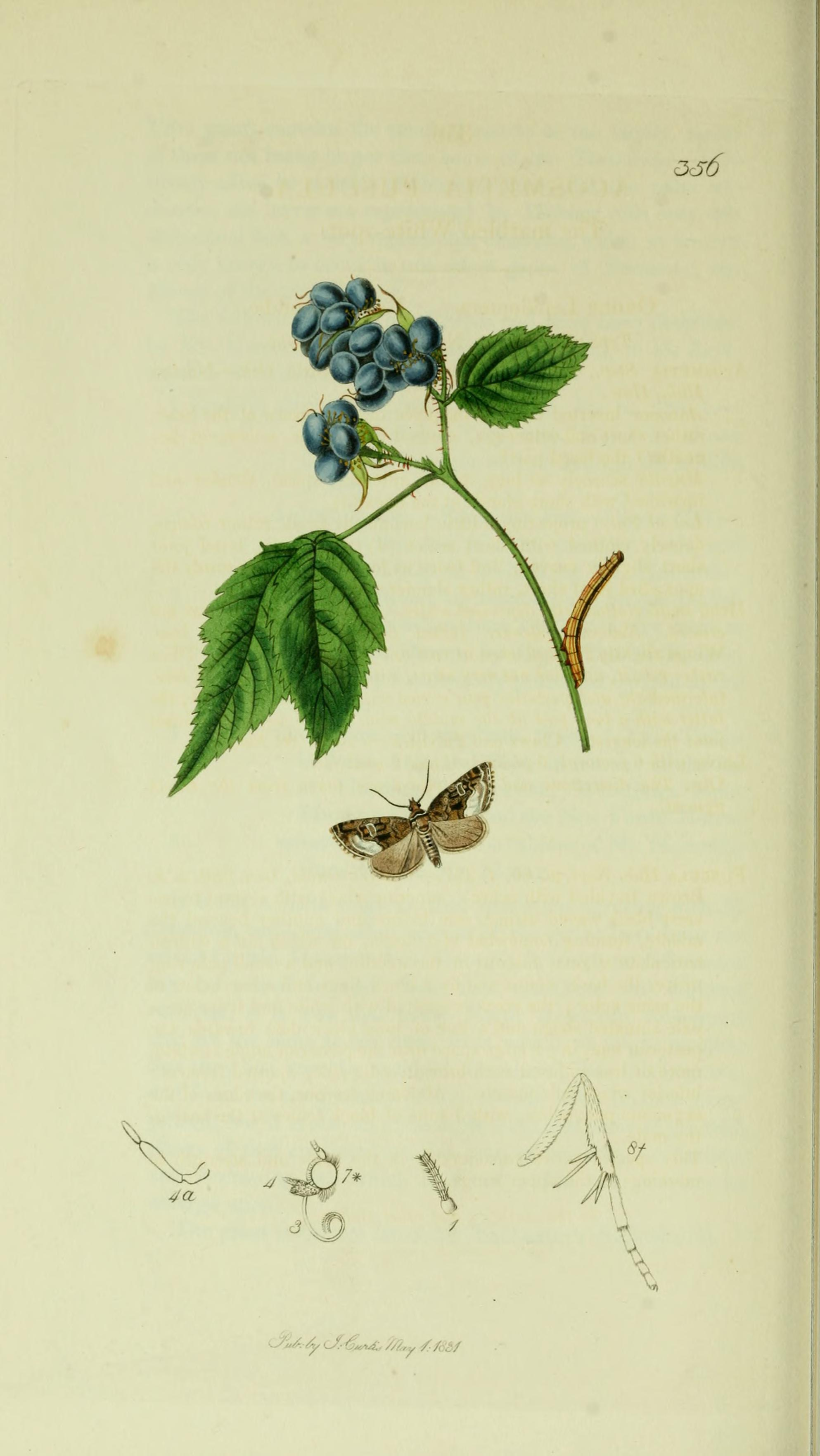 An illustration from British Entomology by John Curtis. Acosmetia fuscula or Lithacodia pygarga or Protodeltote pygarga (Marbled White-spot).